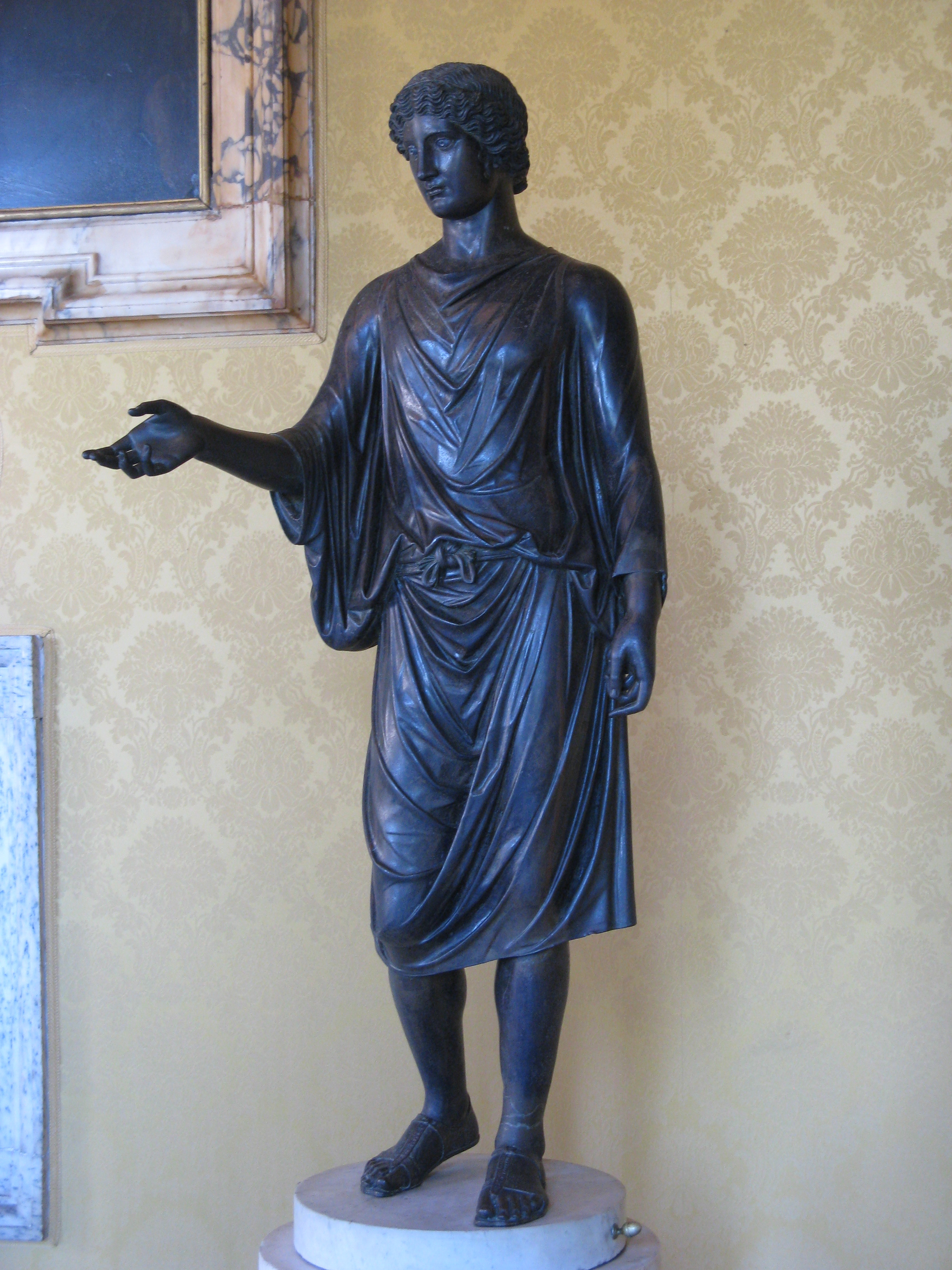 Statue of a camillus (young cult officiant), also known as the “Zingara” (“Gipsy”). Roman artwork.